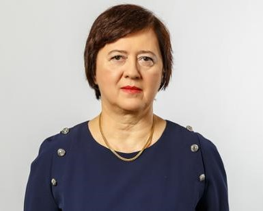 Joanna Wronecka, Polish ambassador to the United Nations